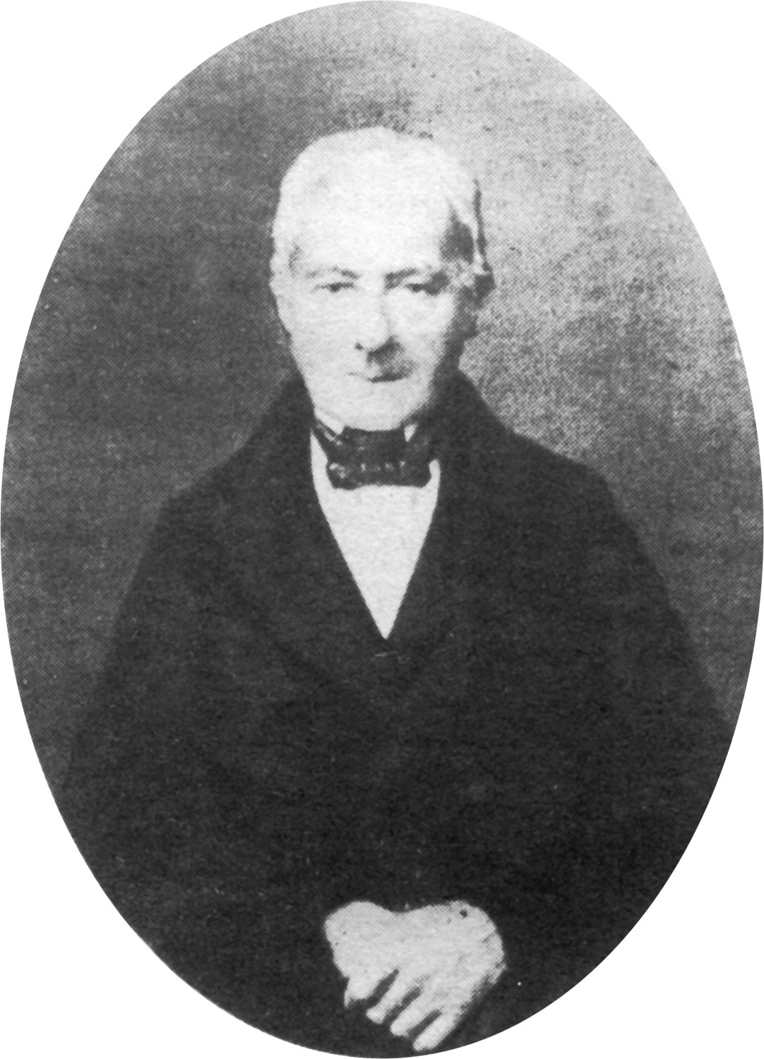 Vasily Ivanovich Berkov (Russian: Василий Иванович Берков) (Dutch: Wicher Berkhoff) (1794-1870), Russian shipbuilder and Director Admiralty Shipyard Saint-Petersburg, of Dutch origin.